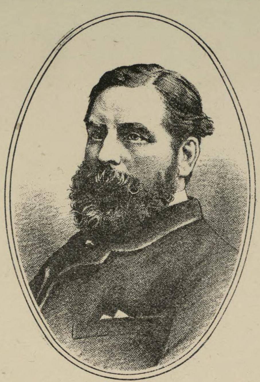 A portrait from the Welsh Portrait Collection at the National Library of Wales. Depicted person: Frank Ash Yeo – British politician